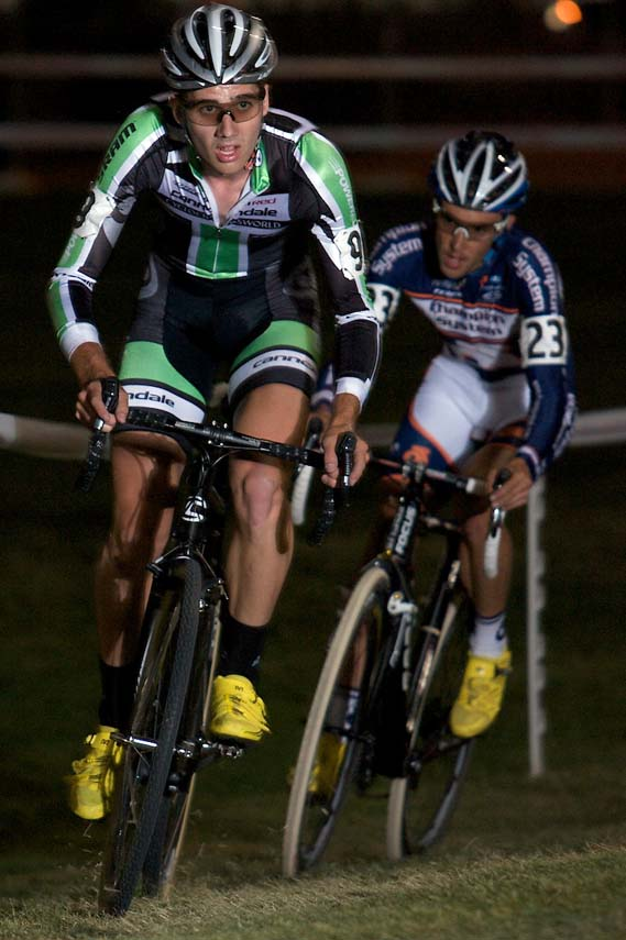 Jamey Driscoll at Cross Vegas